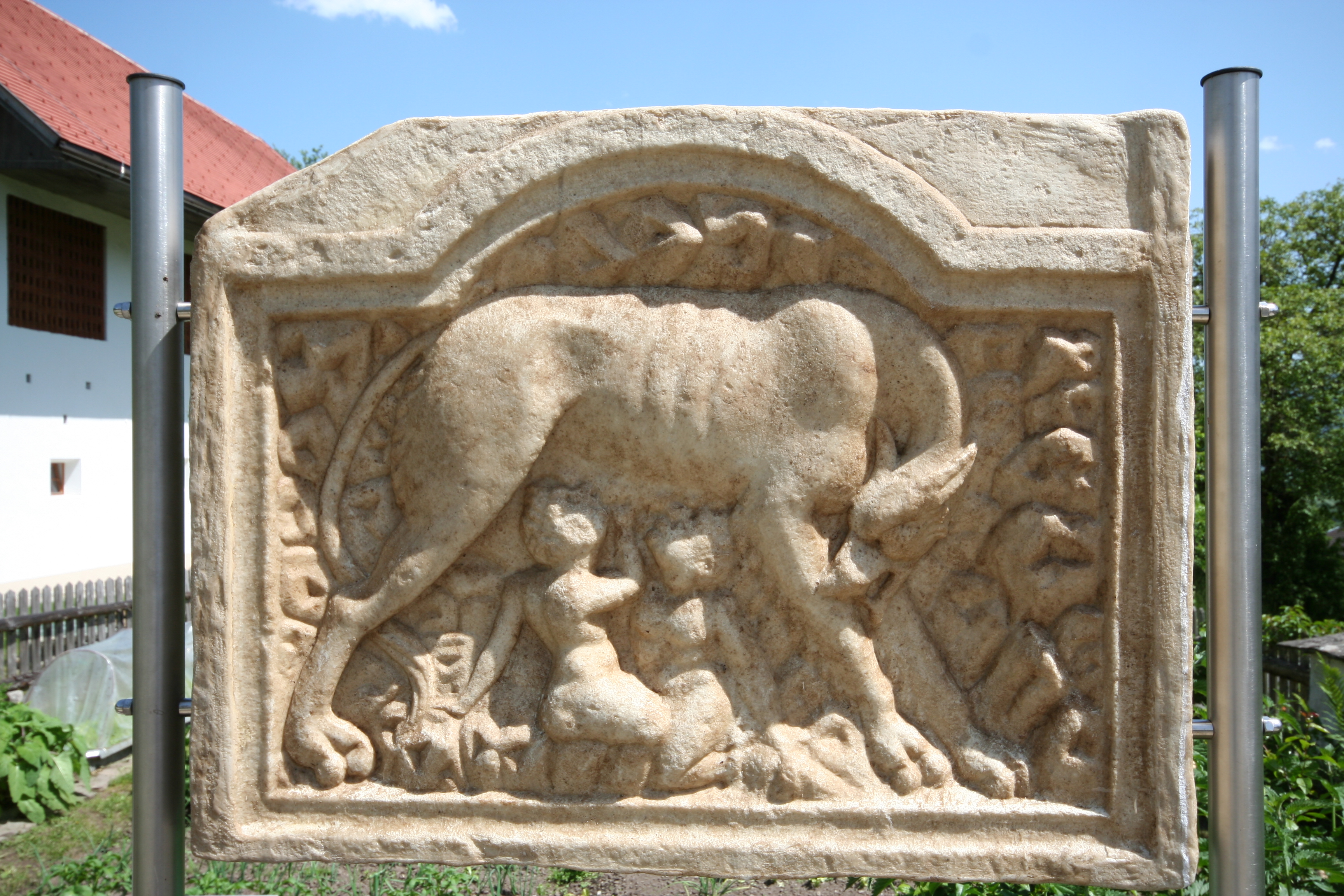 Roman relief in Teurnia, Carinthia (Remus and Romulus)